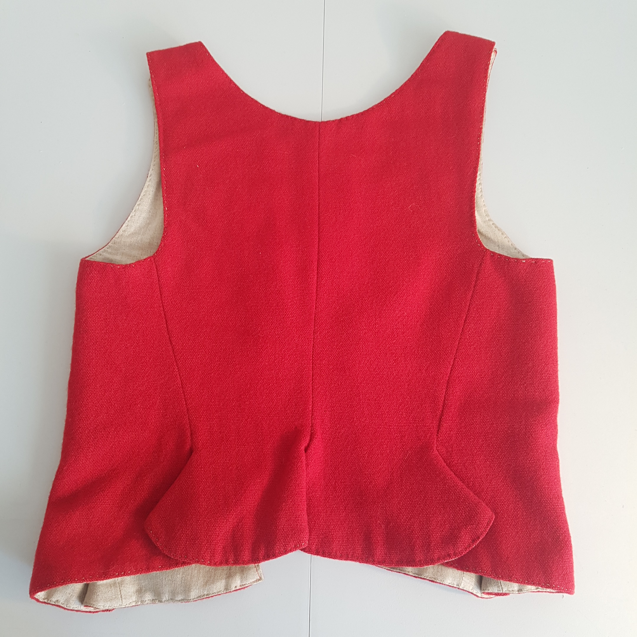 Forshaga-Grava Swedish Folk Costume Bodice Back